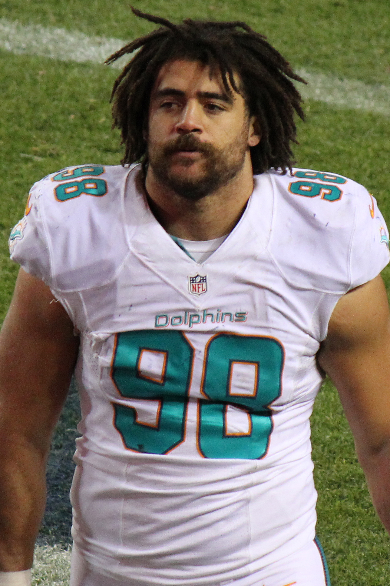 Jared Odrick, a player on the National Football League.